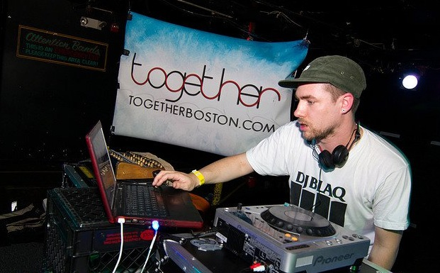 Sinden performs at Together 2010